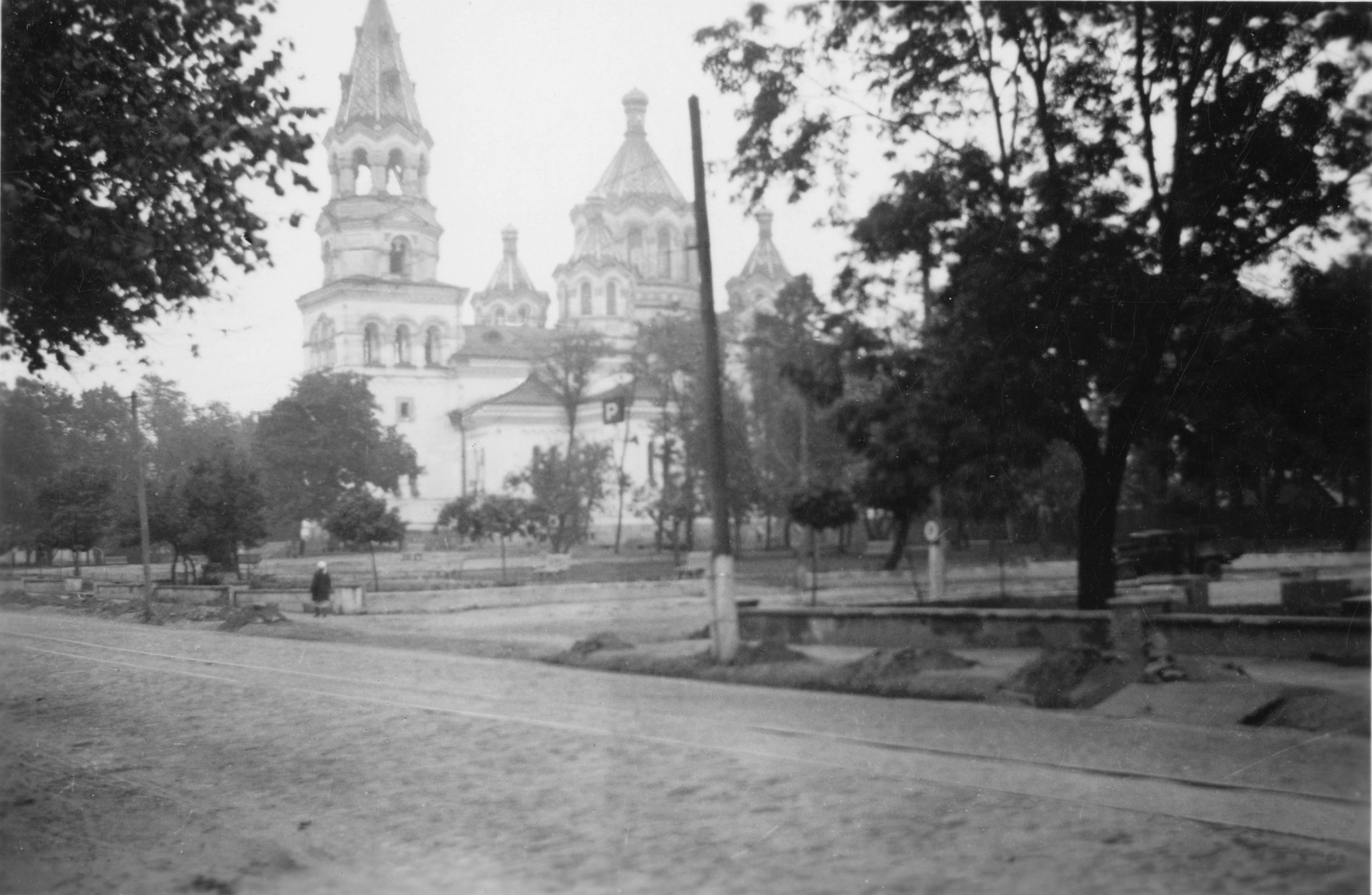 Svyato-Preobrajenskiy-Sobor cathedral in Zhytomyr 1941.